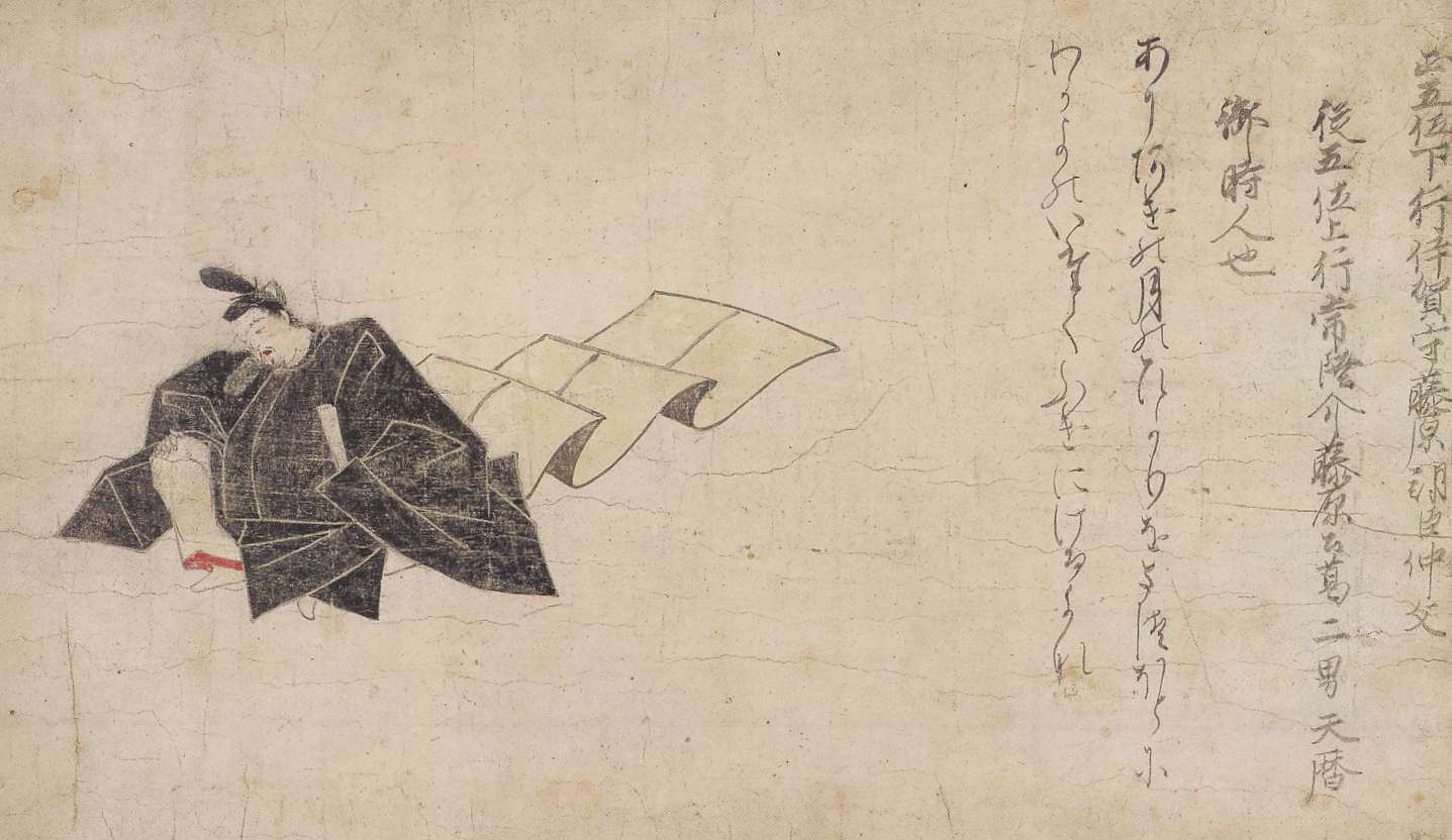 Fujiwara no Nakafumi, from the series Thirty-Six Poetry Immortals formerly in the Satake Collection, Kitamura Museum, Kyoto, Kyoto, Japan